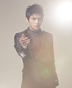 jaejoong